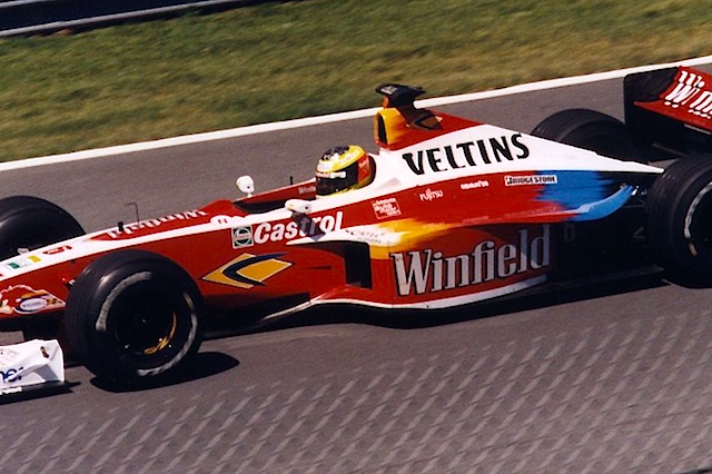 Ralf Schumacher driving for WilliamsF1 at the 1999 Canadian Grand Prix.